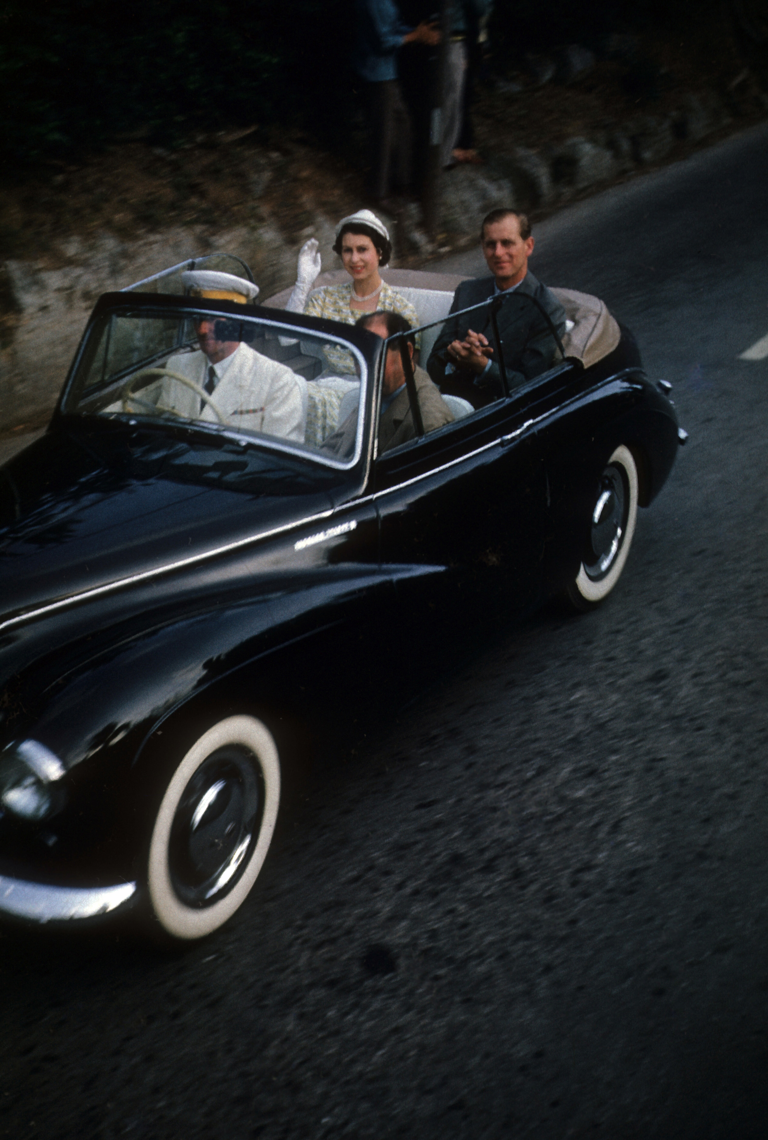 Queen Elizabeth II and Prince Philip visiting Bermuda on November 24-25, 1953